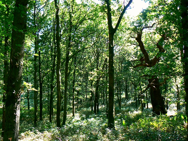 Savernake Forest Viewed facing south. The Queen Oak is the larger tree at the right of the image. This looks idyllic but beware of deep ruts in the undergrowth.